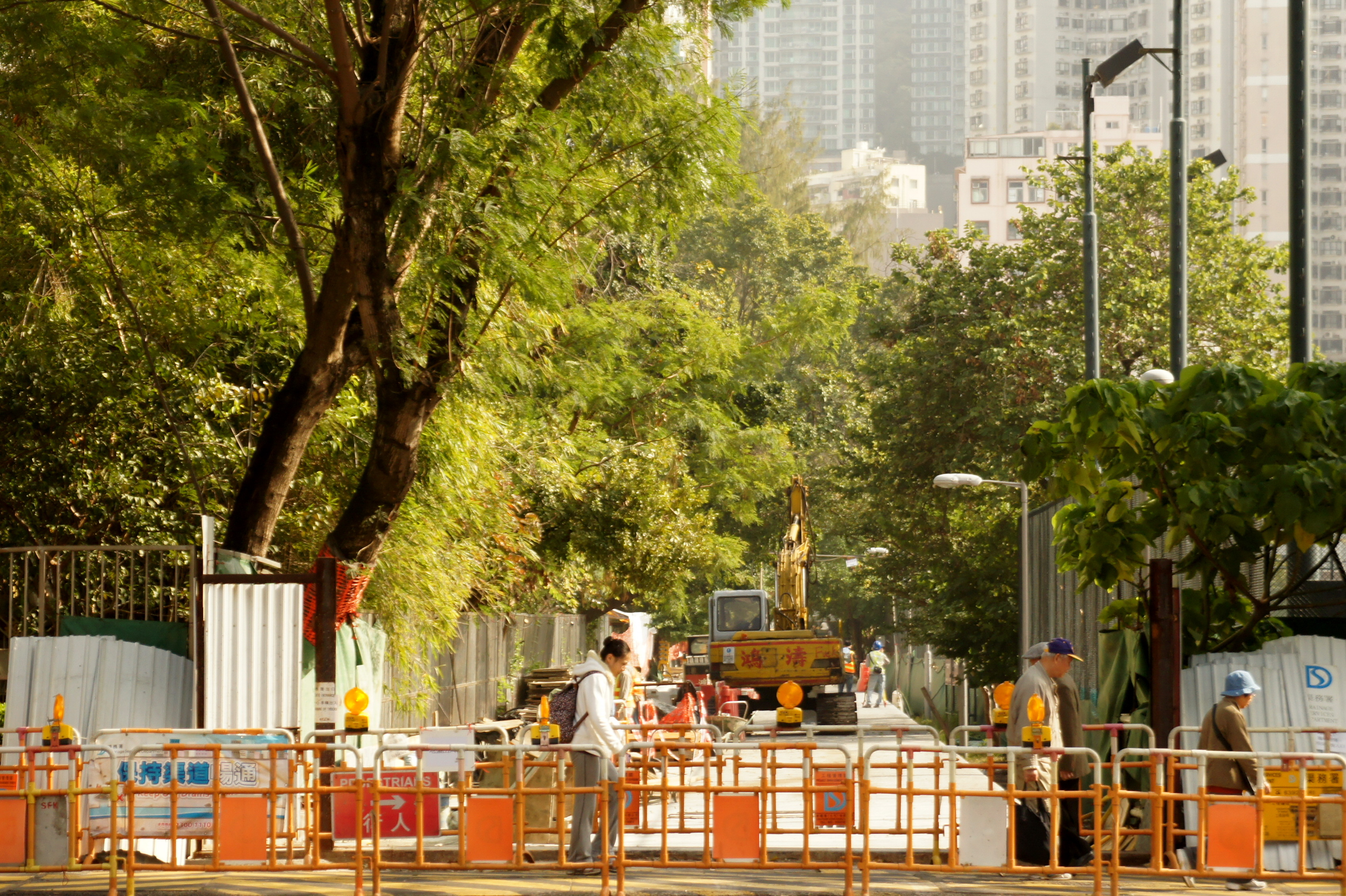 Decking of the Tai Hang Nullah. Entrance at the Causeway Bay Road, Hong Kong.